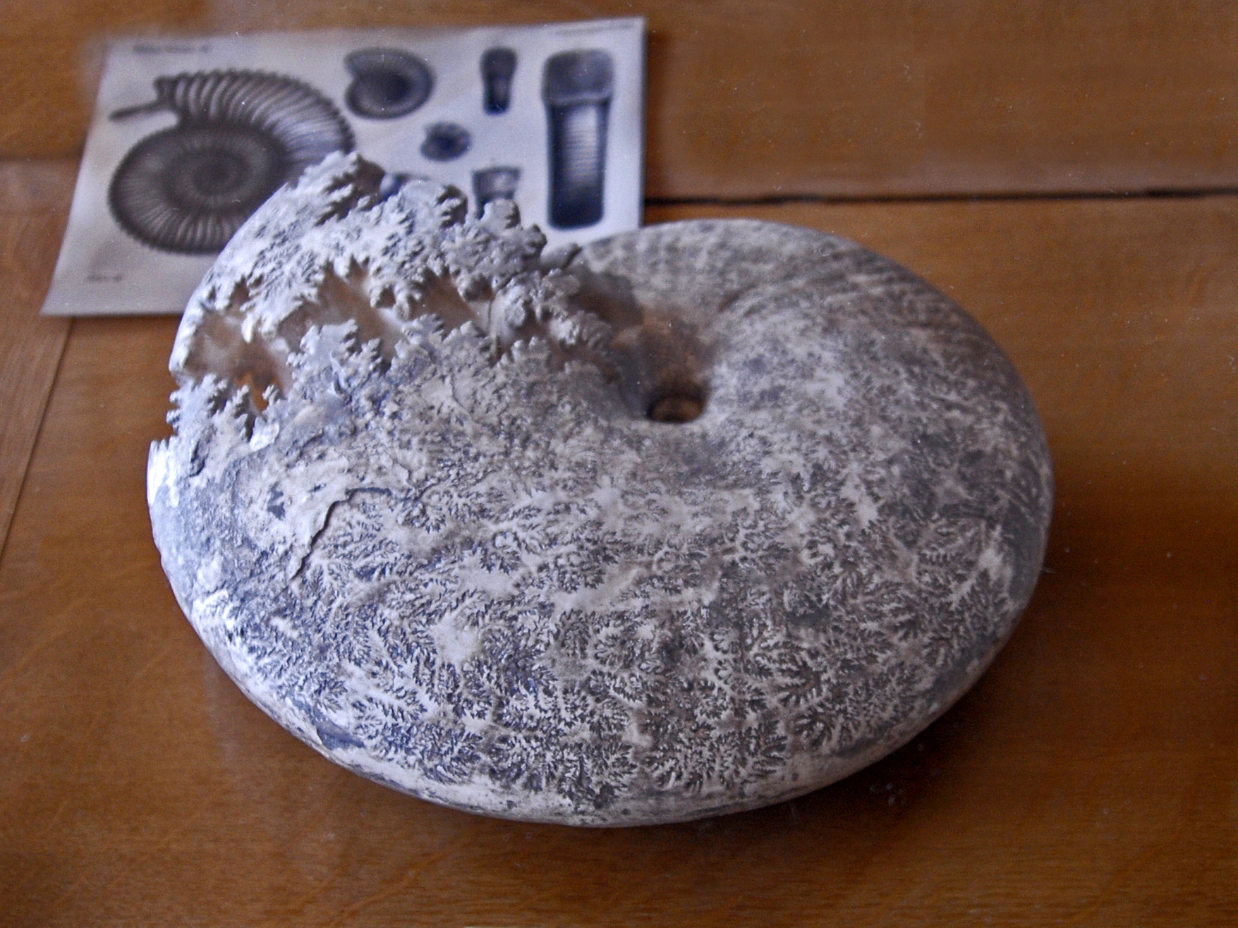 Fossil shell of Aulacostephanus yo from France, on display at Gallery of Paleontology and Comparative Anatomy, Paris.